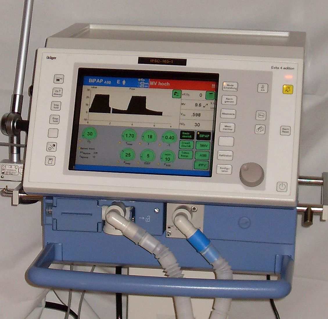 Respirator "Evita4" on an ICU